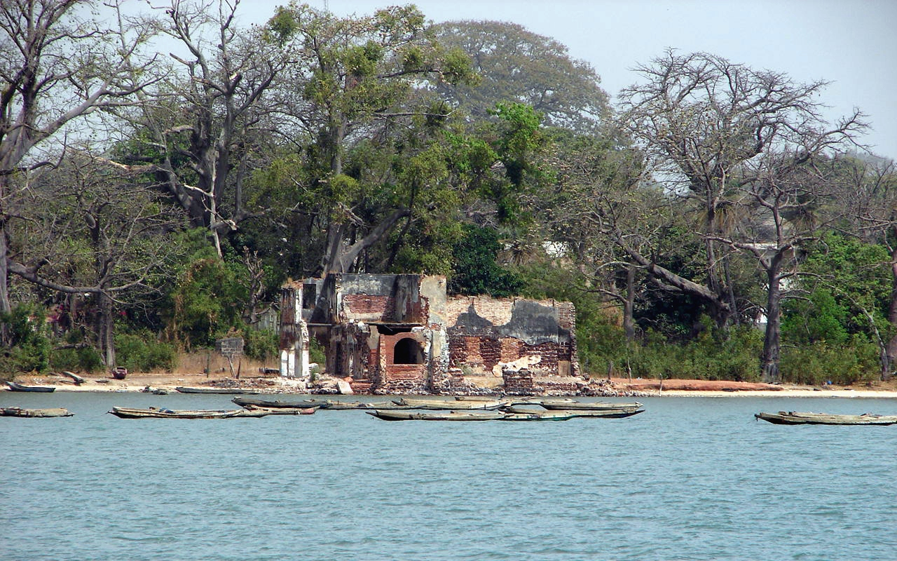 CFAO Building, Albreda, Gambia